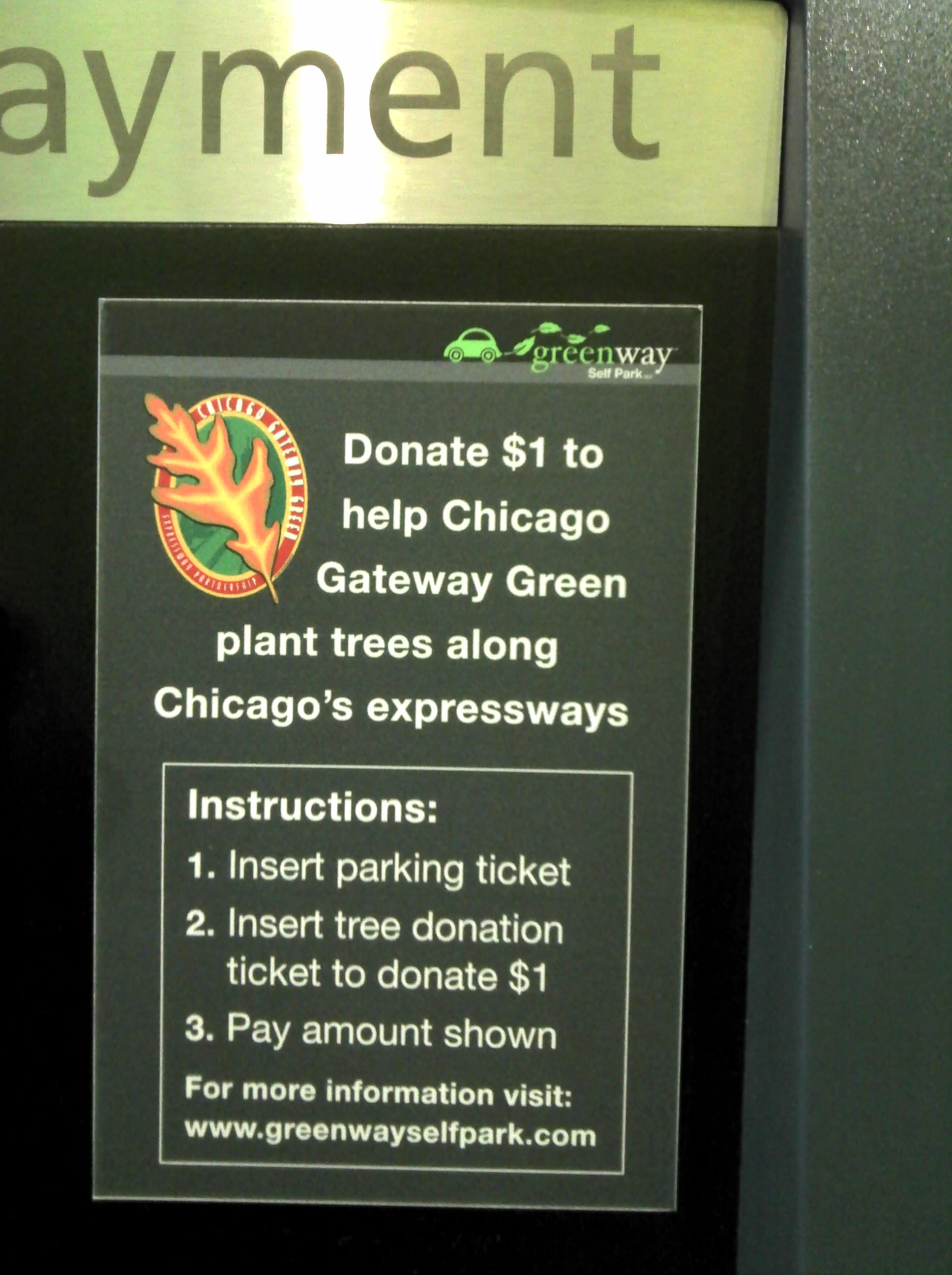 Not only will the Green Parking Garage make your car fart leaves, but it even gives you little slips of dead tree so that you can pay extra money which will gussy up those ugly, smelly traffic sewers that got you there! I'd dislike Gateway Green a little less if it even just took a wider view towards its name, and undertook beautification of other, greener "gateway" modes. Or if it actually did anything with an appreciable ecological impact, besides providing the society photographers a token "green tie ball" to attend.